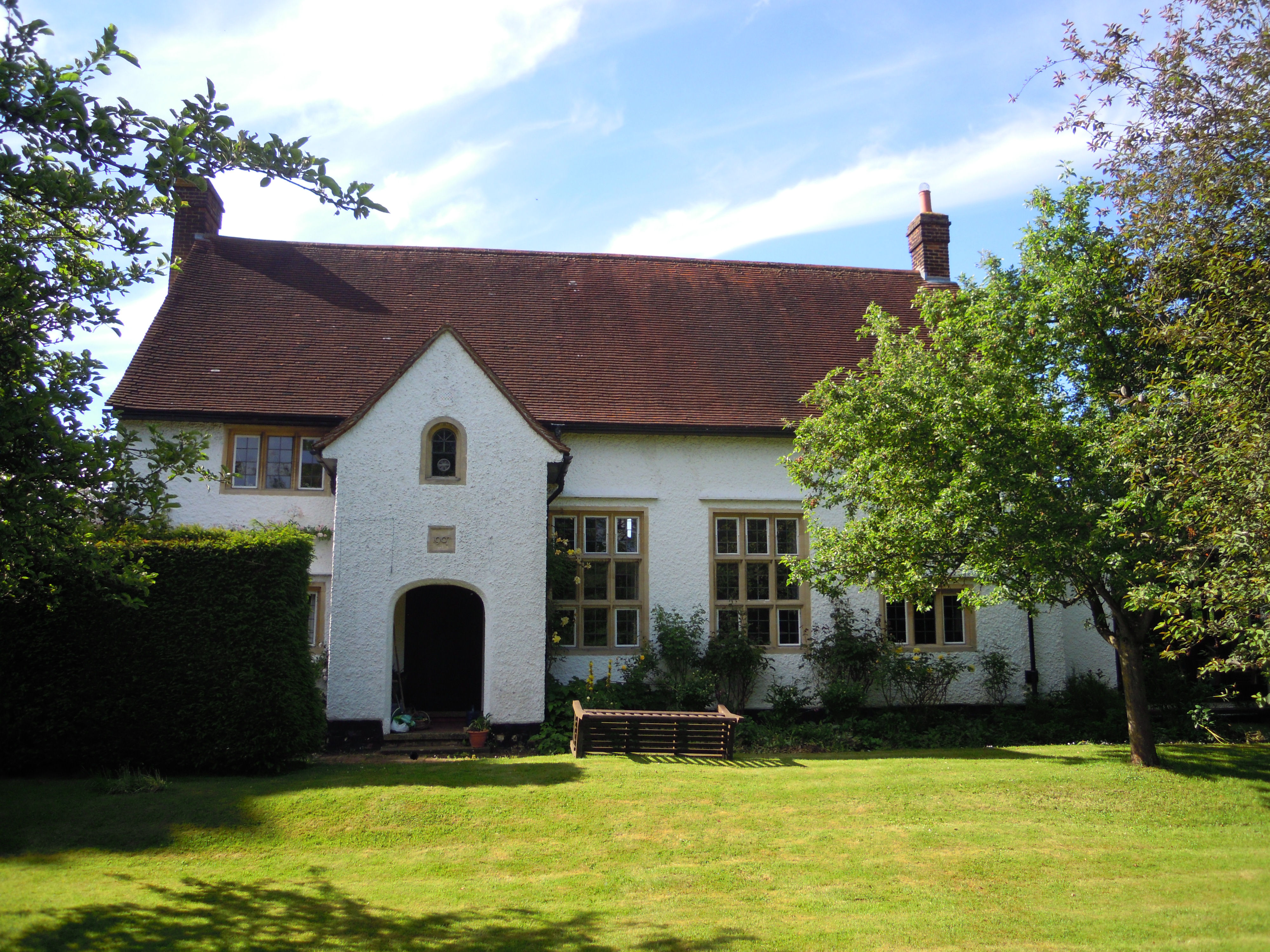 Howgills, the Meeting House for the Society of Friends built in 1907 in Letchworth Garden City